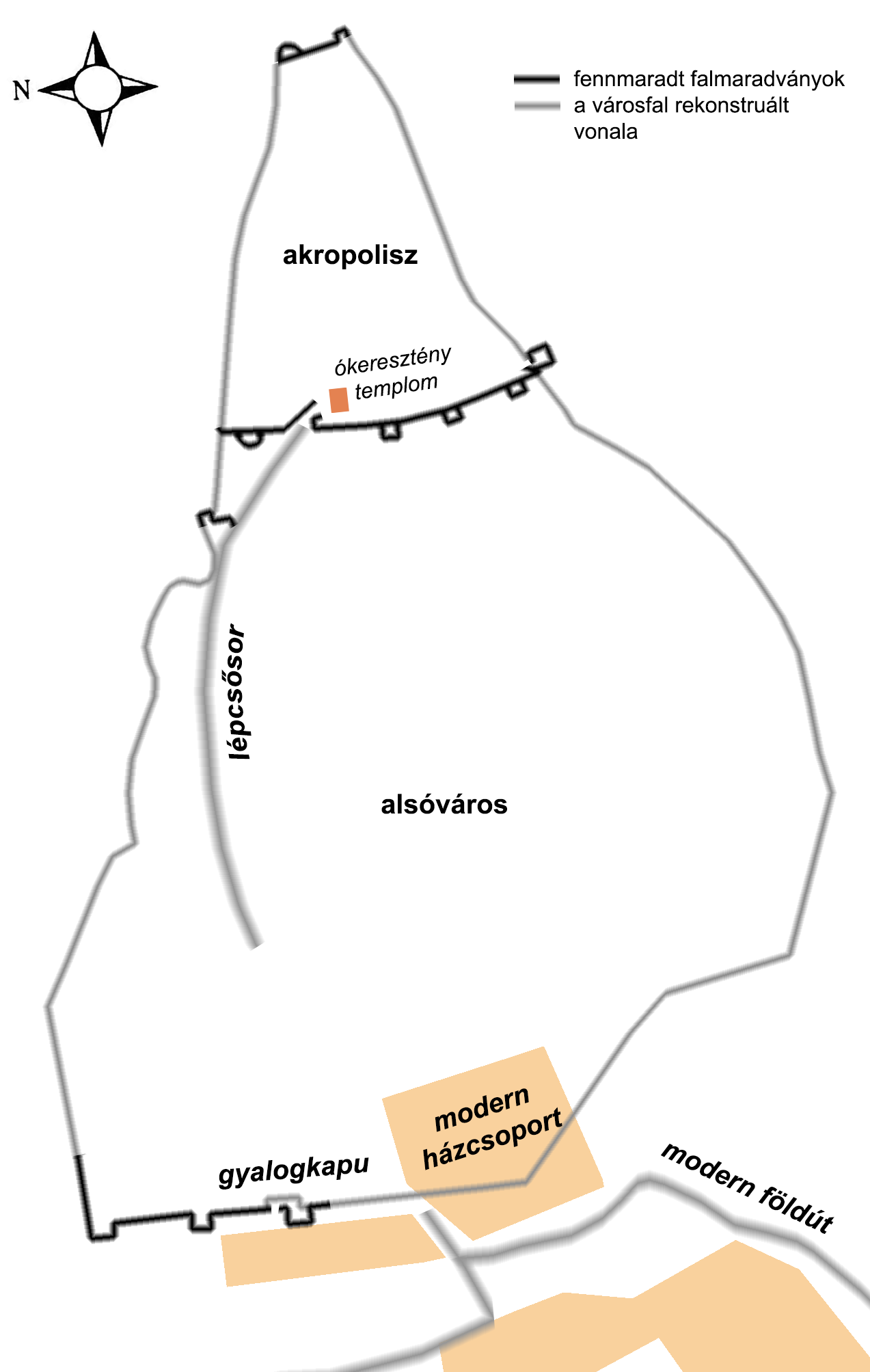 Simplified map of Zgërdhesh, Kruja, Albania with Hungarian labels